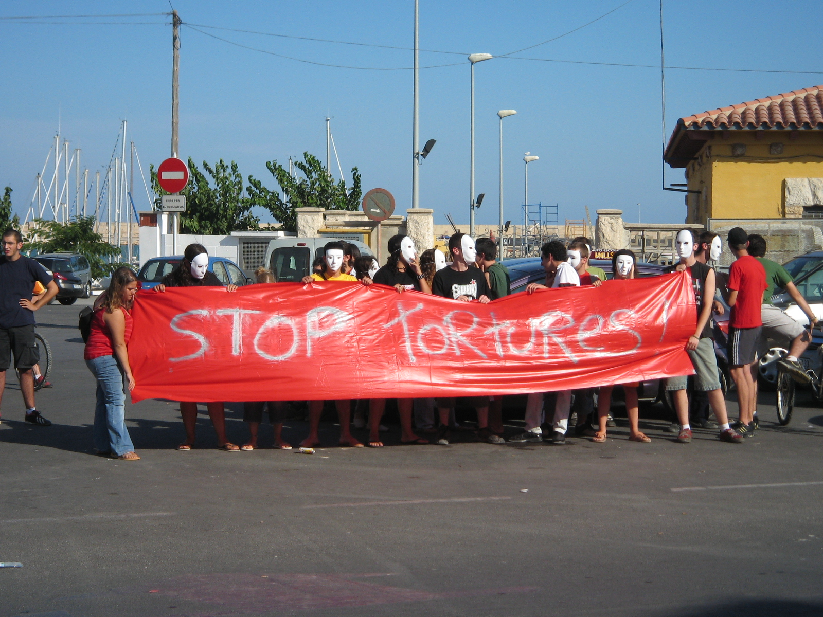 Anti-bullfighting demonstration Vinaròs, Spain.